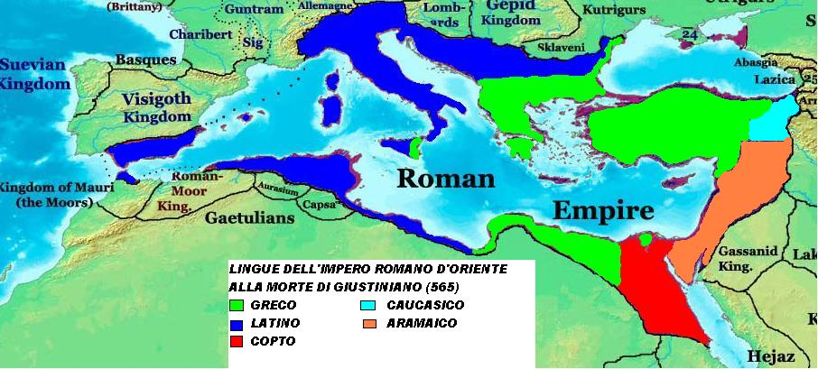 The Roman/Byzantine Empire in 565 AD and its languages.